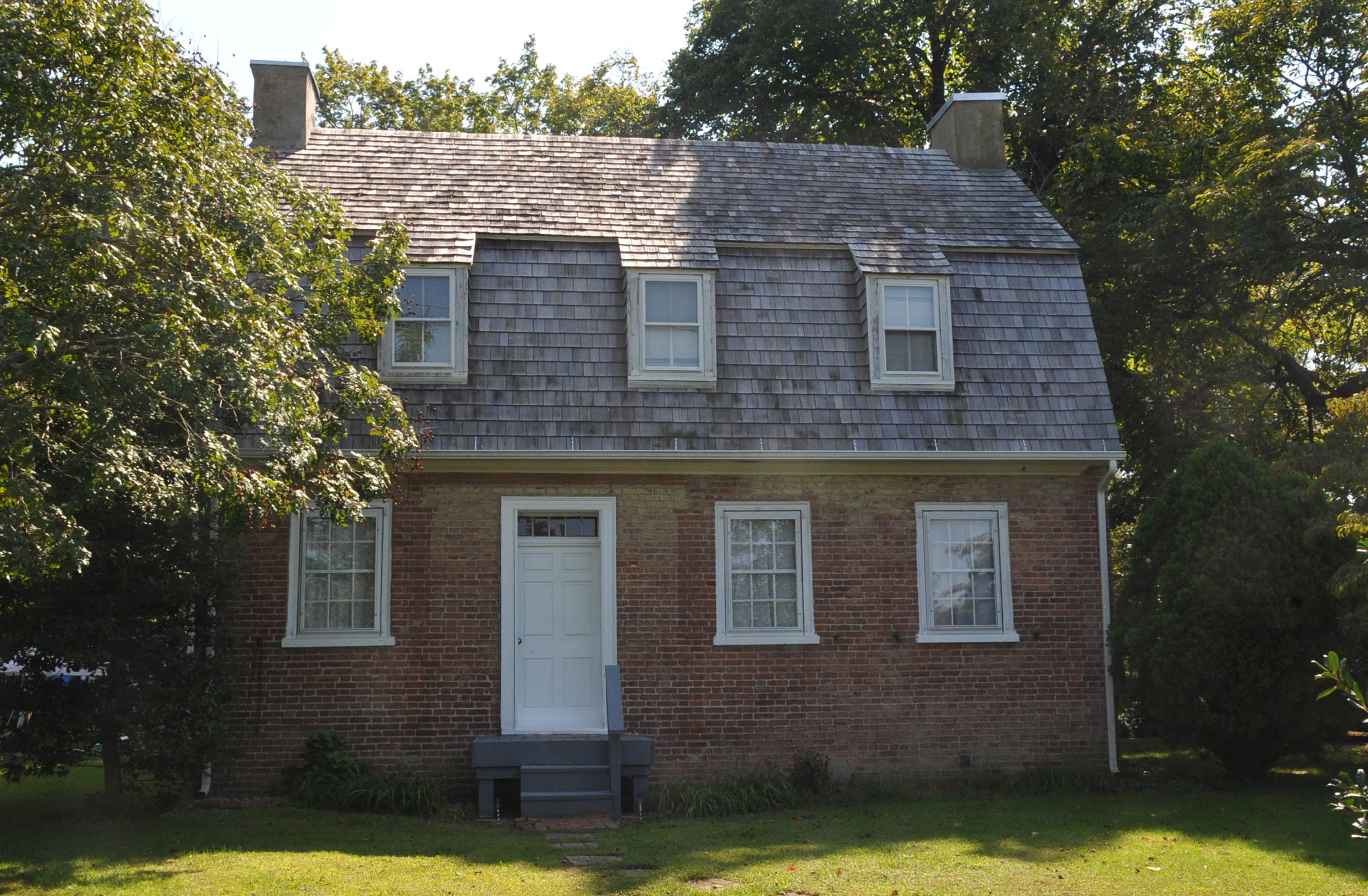 Duck Creek VillageTHE LINDENS IN DUCK CREEK VILLAGE WAS BUILT IN 1765 BY THE OWNER OF THE ADJACENT GRIST MILL IN DUTCH COLONIAL STYLE; THIS IS THE PREMIER SITE IN THE VILLAGE. THE GRIST MILL IS IN RUINS